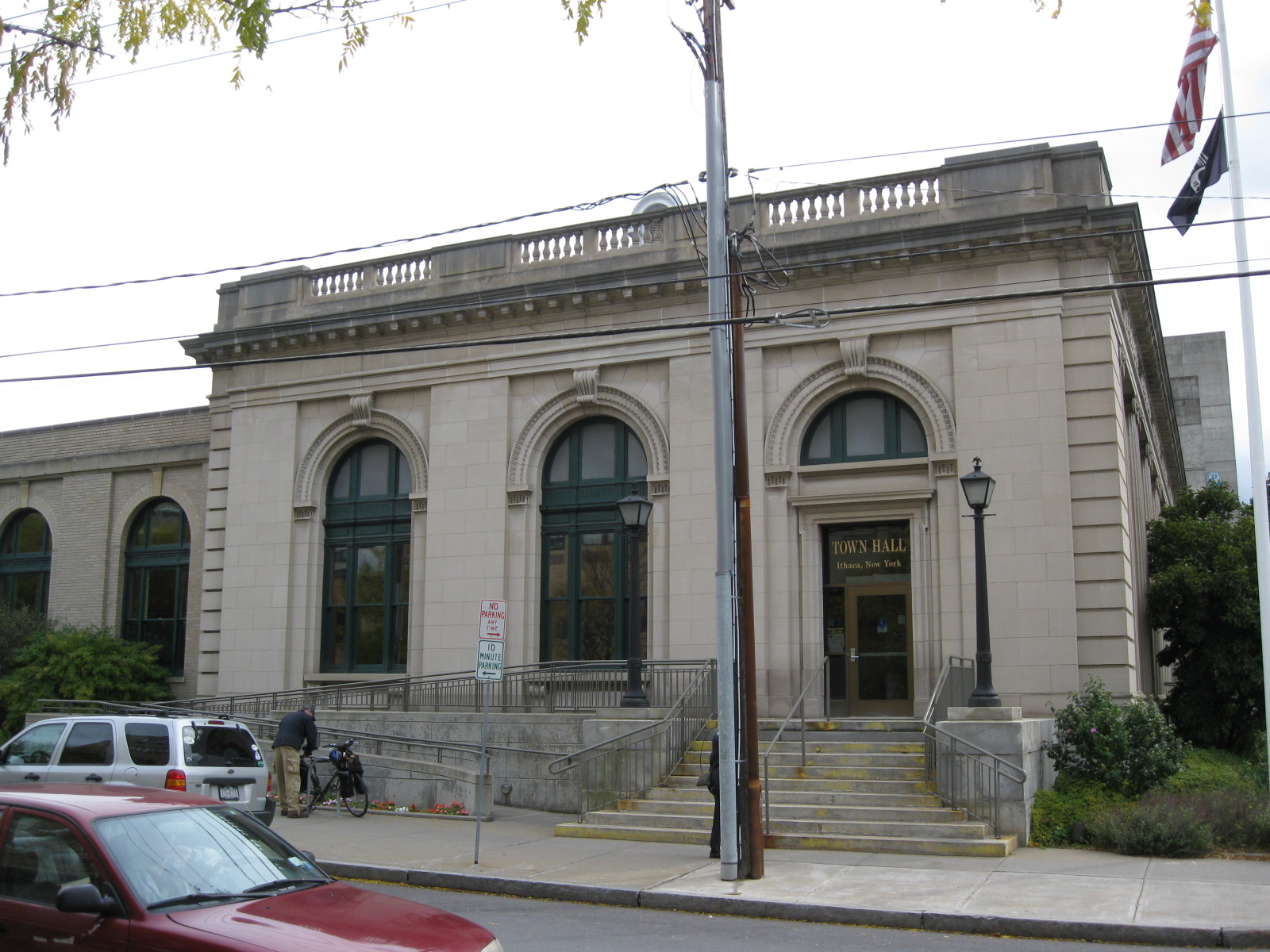 Built in 1910 as a post office, this building was redeveloped in 2000 to become the Town Hall of Ithaca, NY.